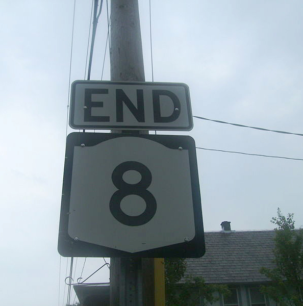 Derative work of Image:END! NY 8.jpg edited for color levels and cropped